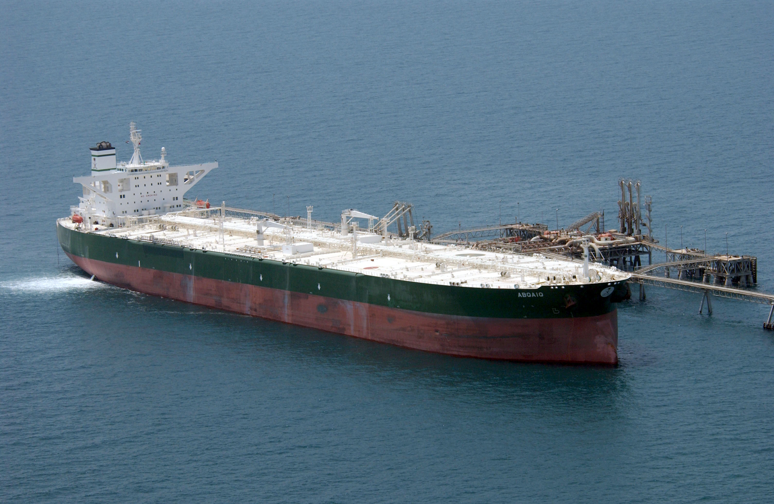 Central Command Area of Responsibility (Jun. 29, 2003) -- Commercial oil tanker AbQaiq readies itself to receive oil at Mina-Al-Bkar Oil terminal (MABOT), an off shore Iraqi oil installation. The supertanker AbQaiq is the first commercial vessel to receive exported Iraqi oil as an off shore customer since 1991, outside of the United Nations' Oil-For-Food program. AbQaiq is scheduled to take on an estimated 2 million barrels of crude oil. U.S. Navy and coalition forces are helping to provide security, enforcing an exclusionary perimeter around the terminal. U.S. Navy photo by Photographer's Mate 2nd Class Andrew M. Meyers. (RELEASED)